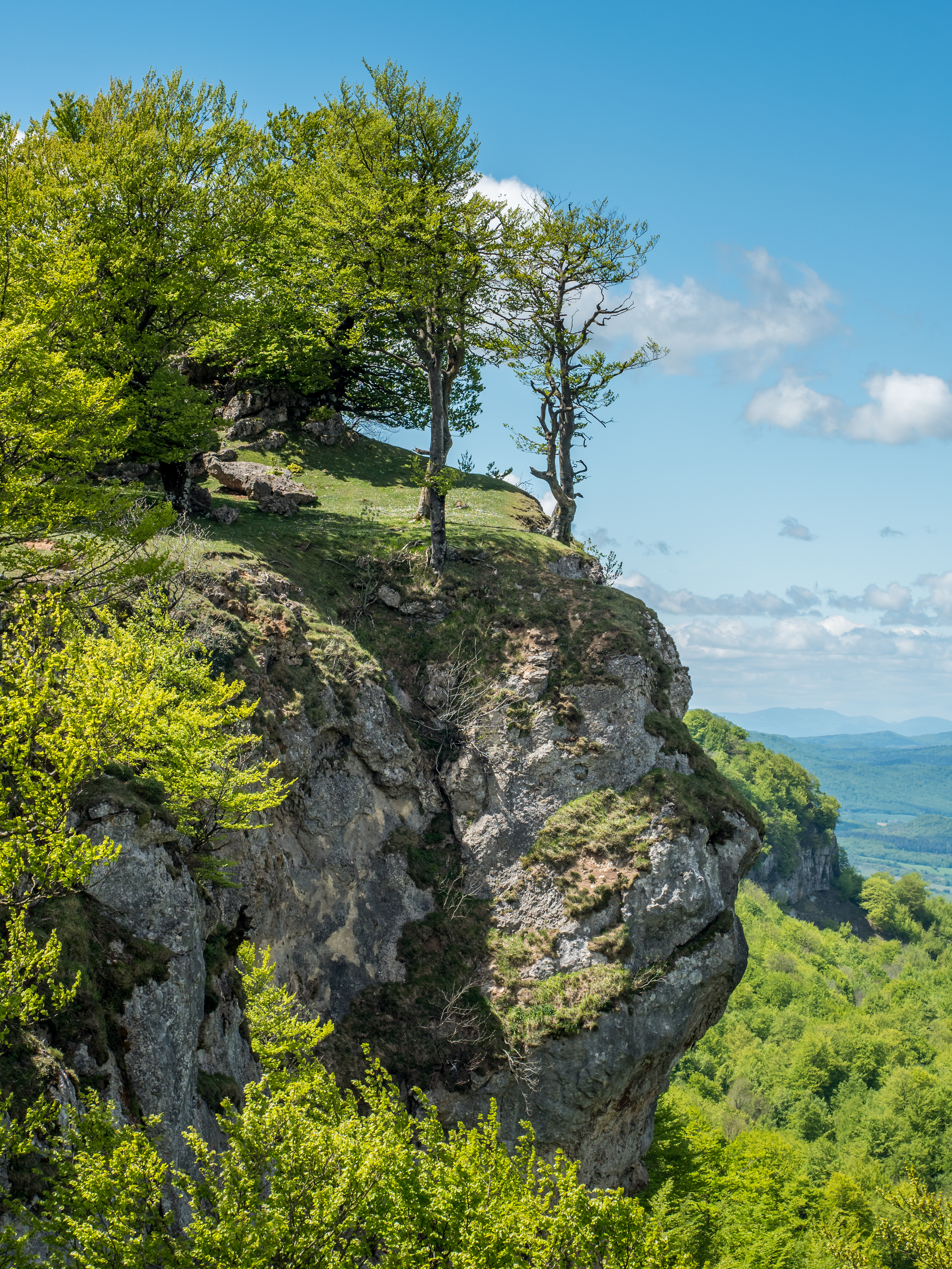 Beeches (Fagus sylvatica) on a rock near the summit of Txumarregi in the Entzia mountain range. Álava, Basque Country, Spain